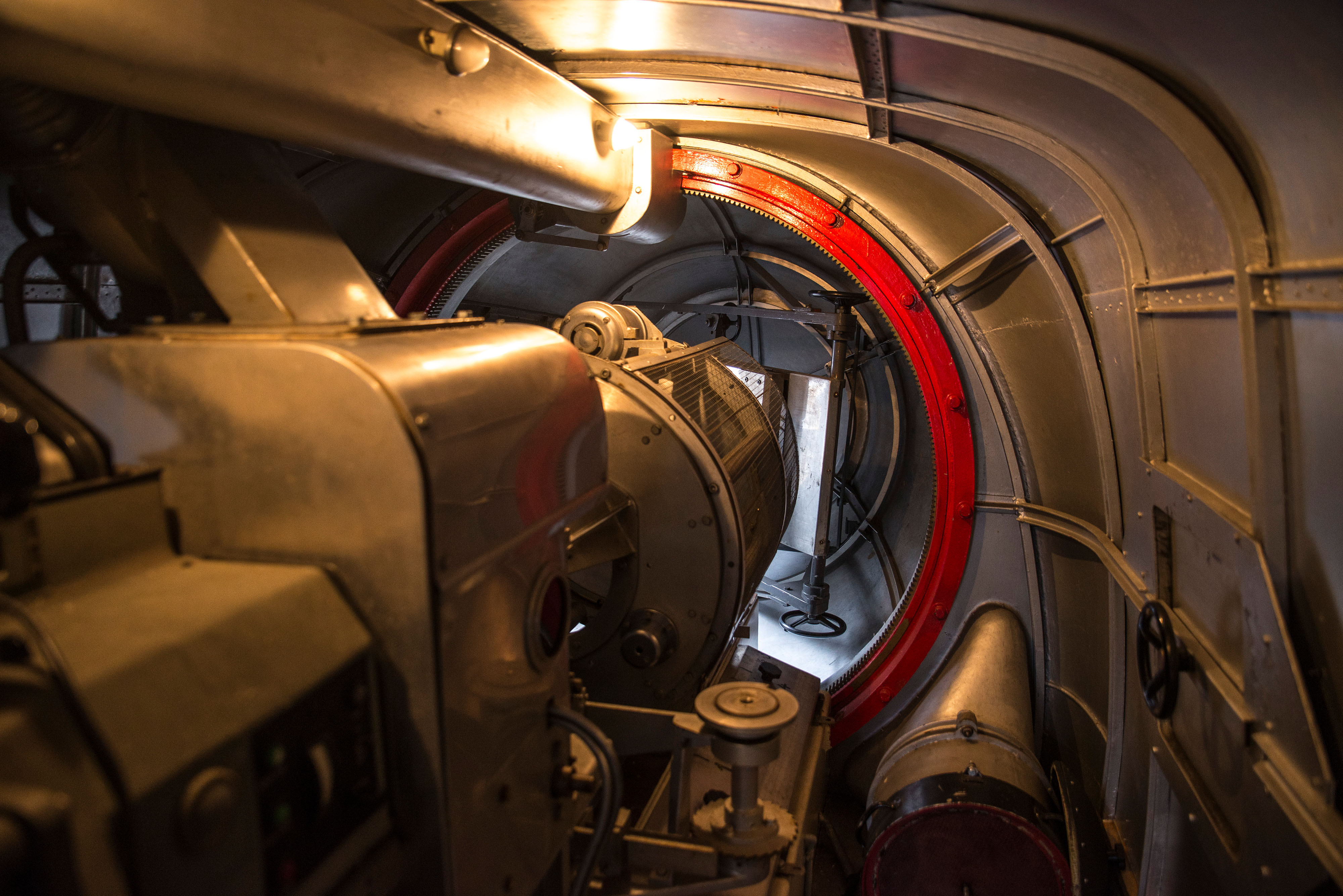 Inside the Andreoli Spitlight. Most of the space is used for the lamp and the optic of the giant projector.